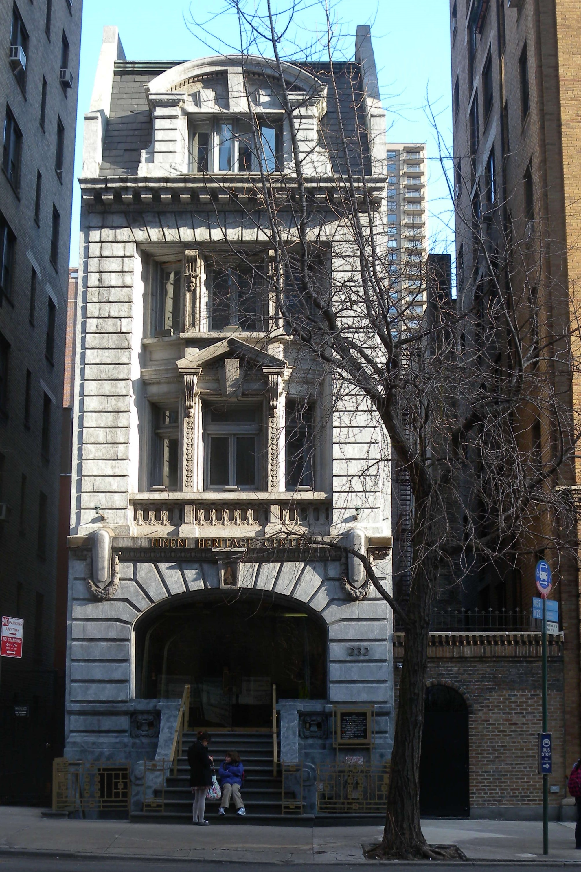 Looking east at Heritage Center on a sunny winter afternoon. 232 W End Ave, ZIP 10023.